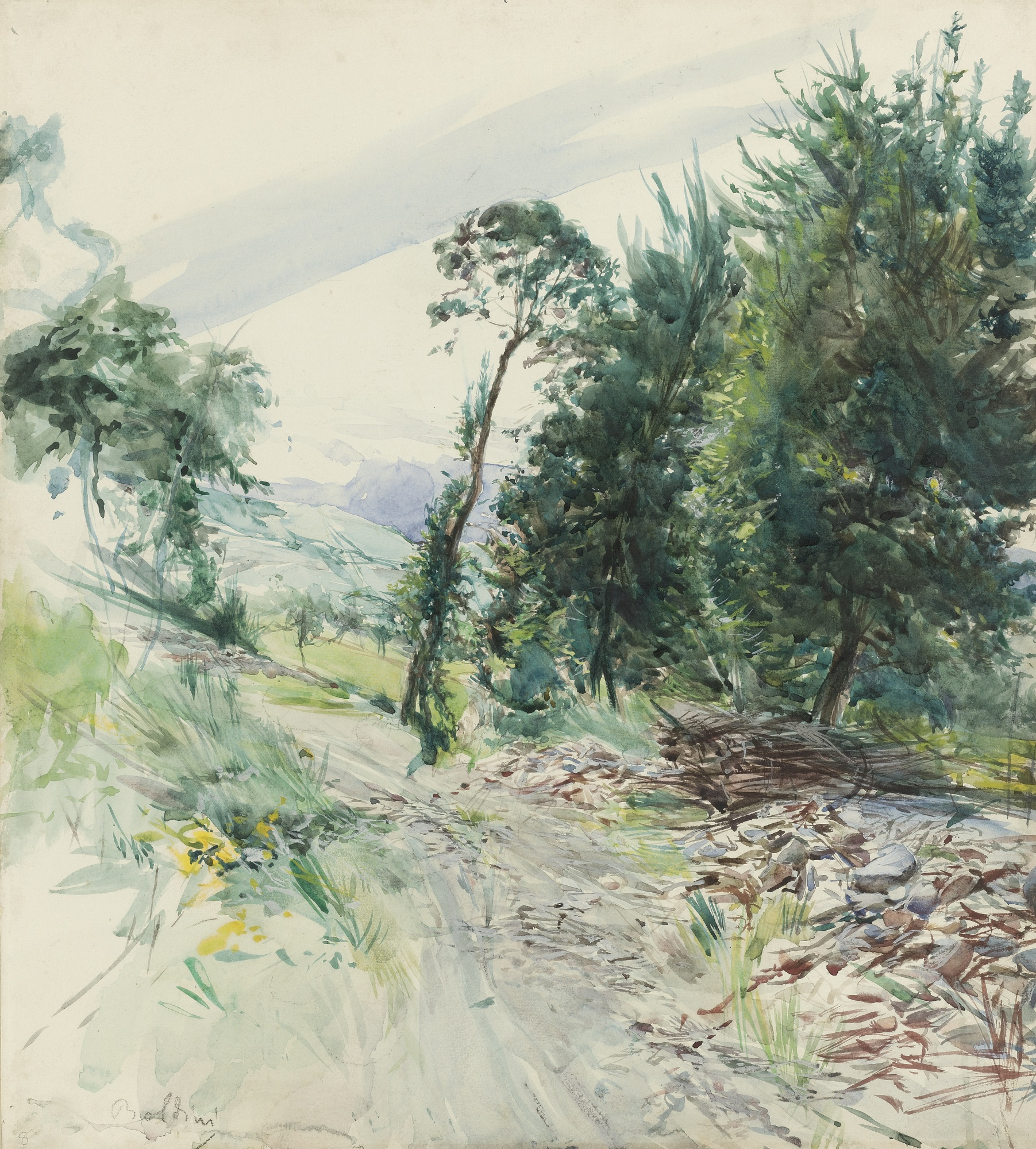 GIOVANNI BOLDINI FERRARA 1842 - PARIS 1931 LA ROUTE signed lower left: Boldini and numbered 8 watercolor and gouache with traces of charcoal on heavy paper 49.8 by 44.7 cm.